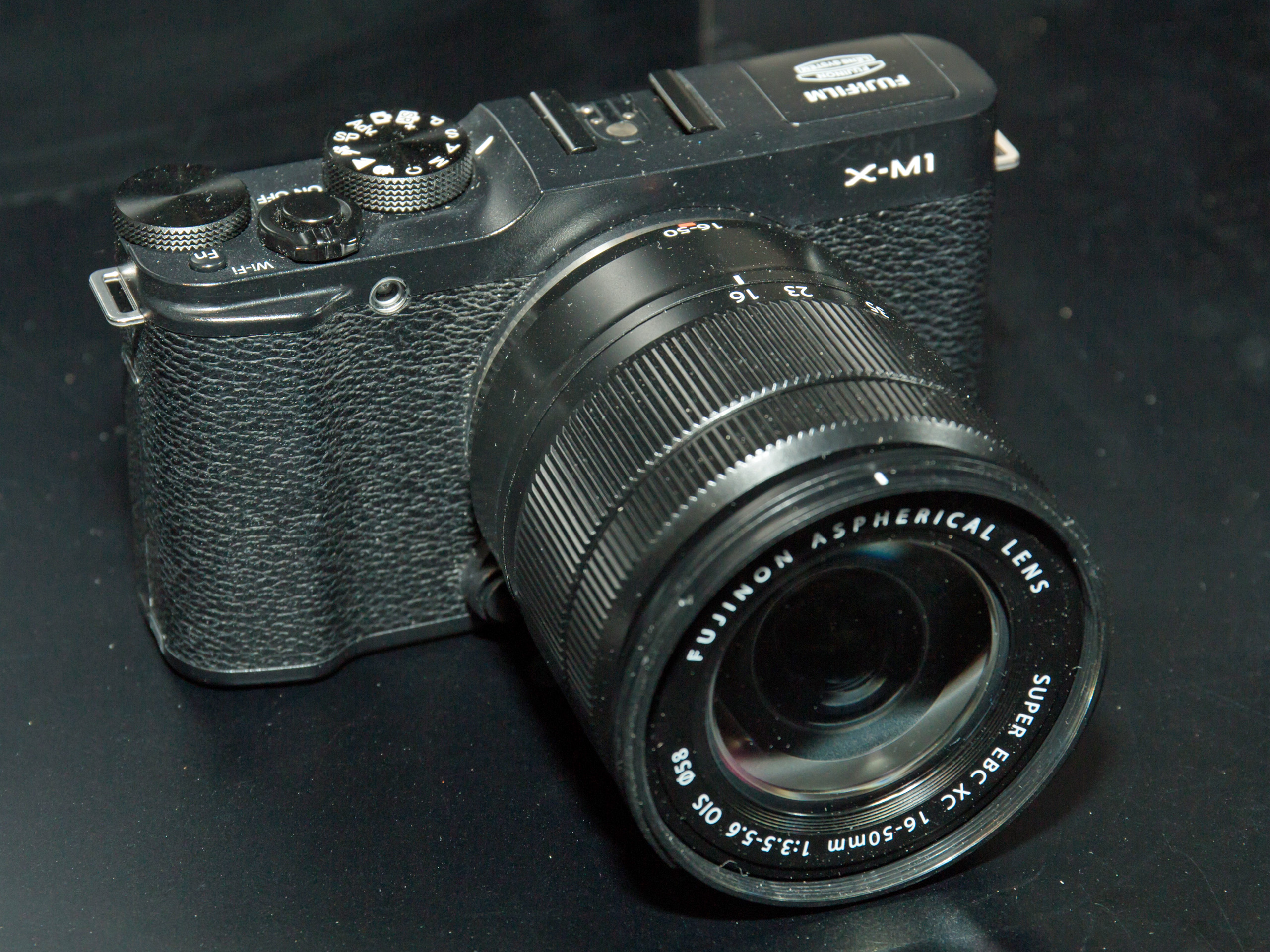 CP+ 2014: 2013 Fujifilm X-M1